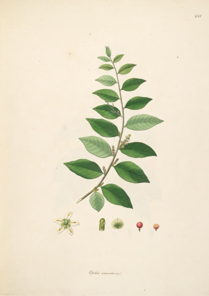 Illustration of Opilia amentacea